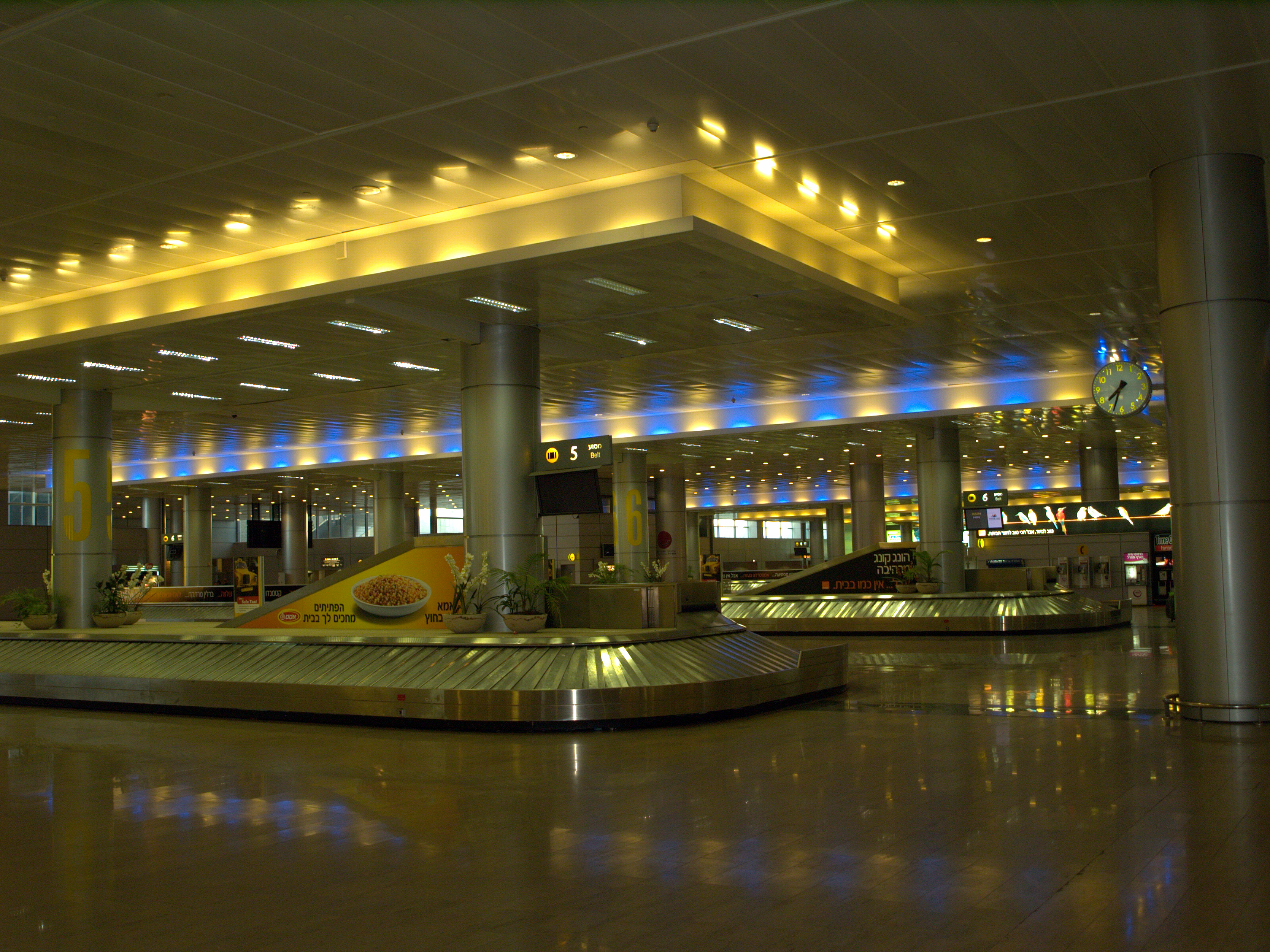 Luggage carousel at Ben-Gurion International Airport.